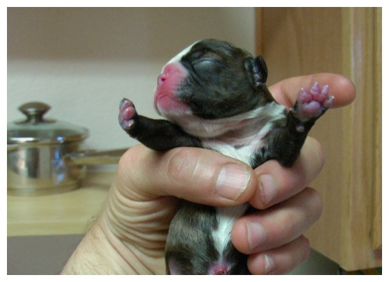 Newborn Boston Terrier (November 2006). Photo by Peter Rimar.